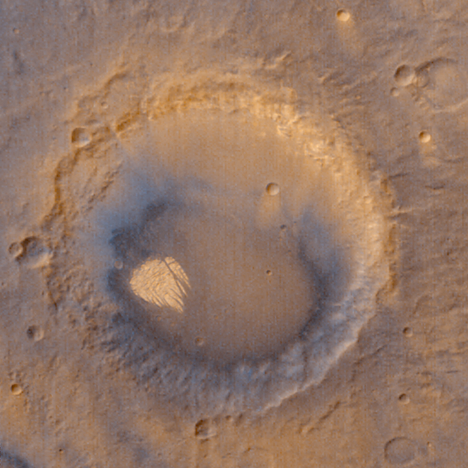 White Rock' of Pollack Crater